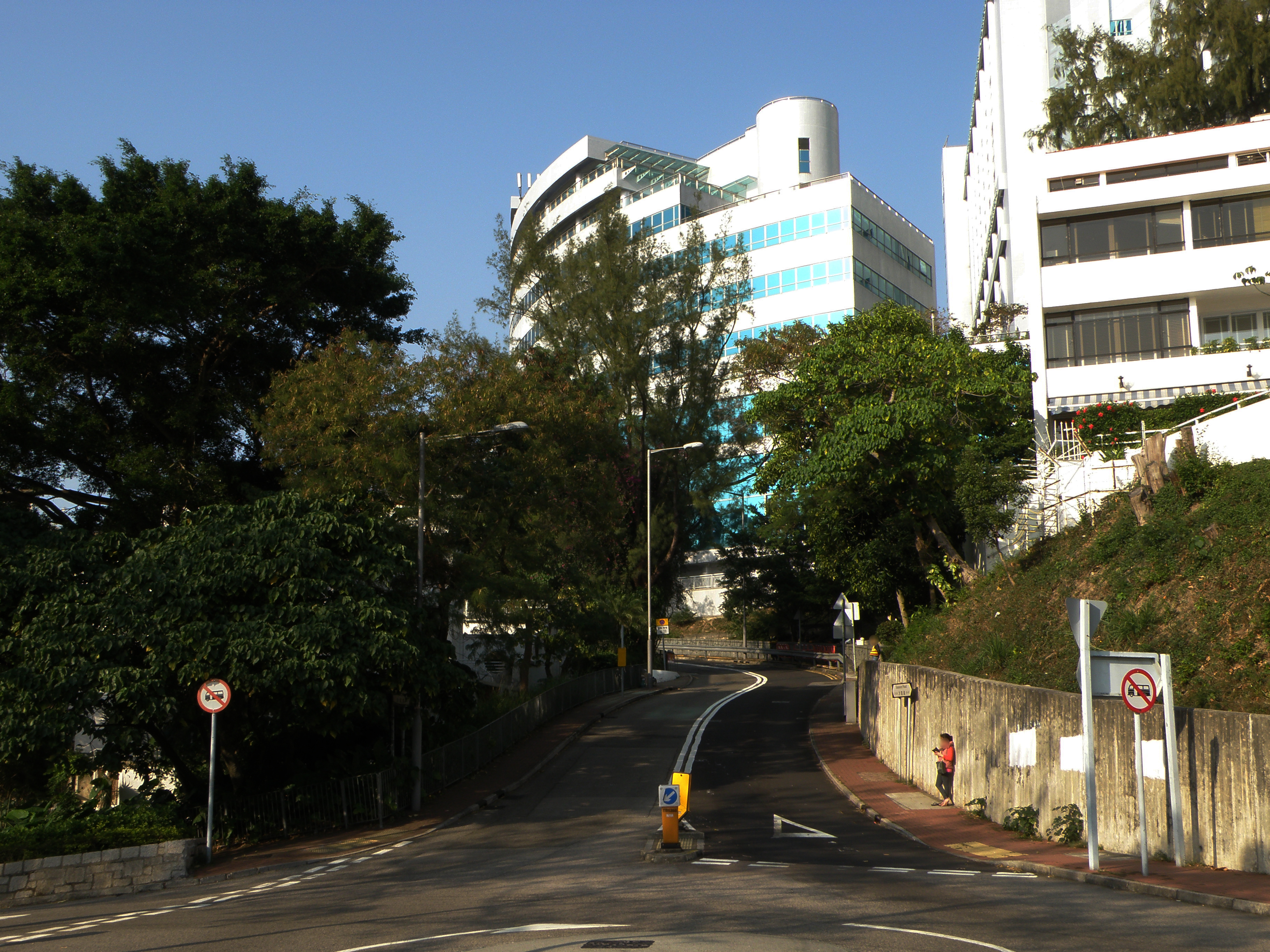 Sassoon Road in Pok Fu Lam, Hong Kong.